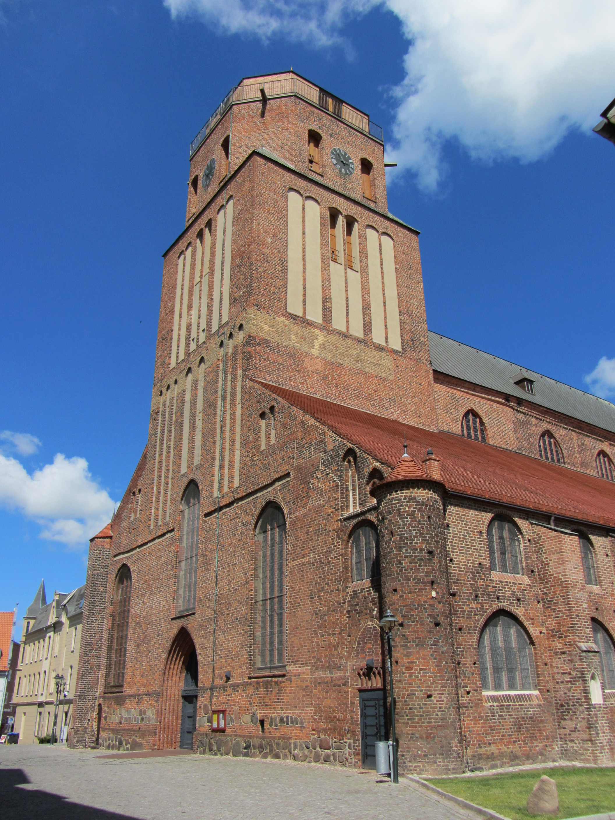 Church St. Petri in Wolgast, district Vorpommern-Greifswald, Mecklenburg-Vorpommern, Germany